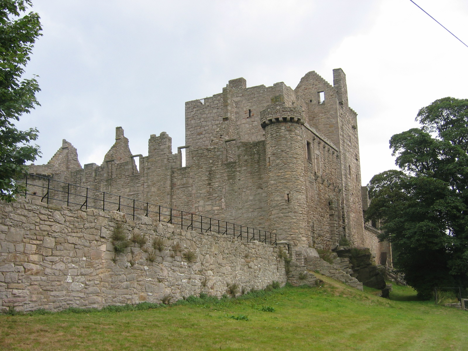 Craigmillar Castle, Edinburgh, Scotland. View from the south-west.